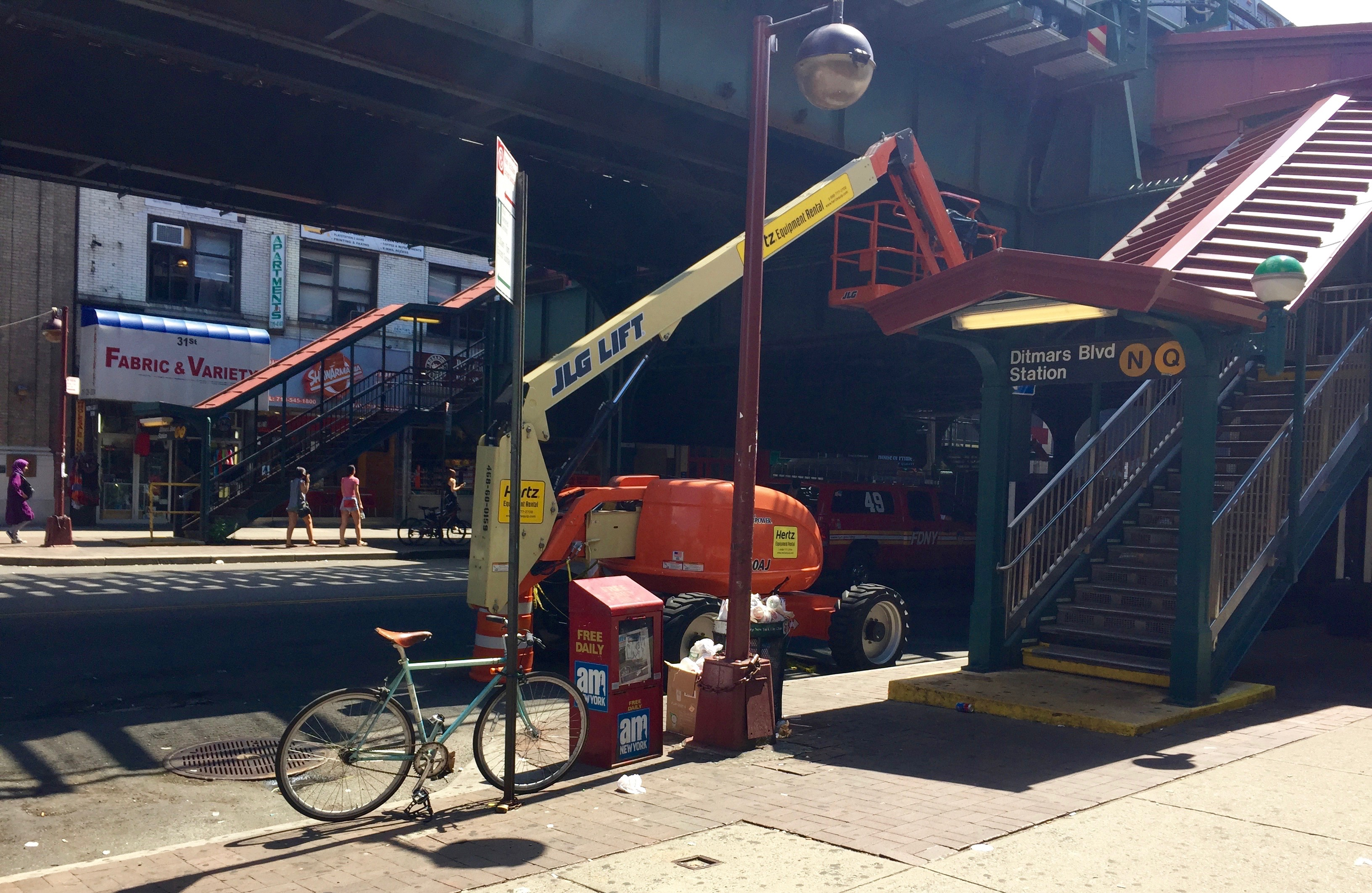 Set of stairs at Astoria - Ditmars Blvd on the N/Q.